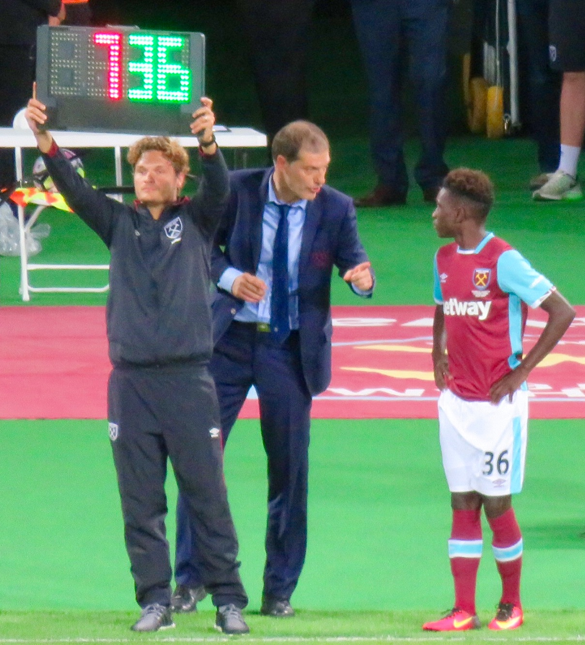 West Ham United player Domingos Quina (right) is sent on to play as a substitute by manager Slaven Bilic in the Europa League game against NK Domzale, London Stadium.